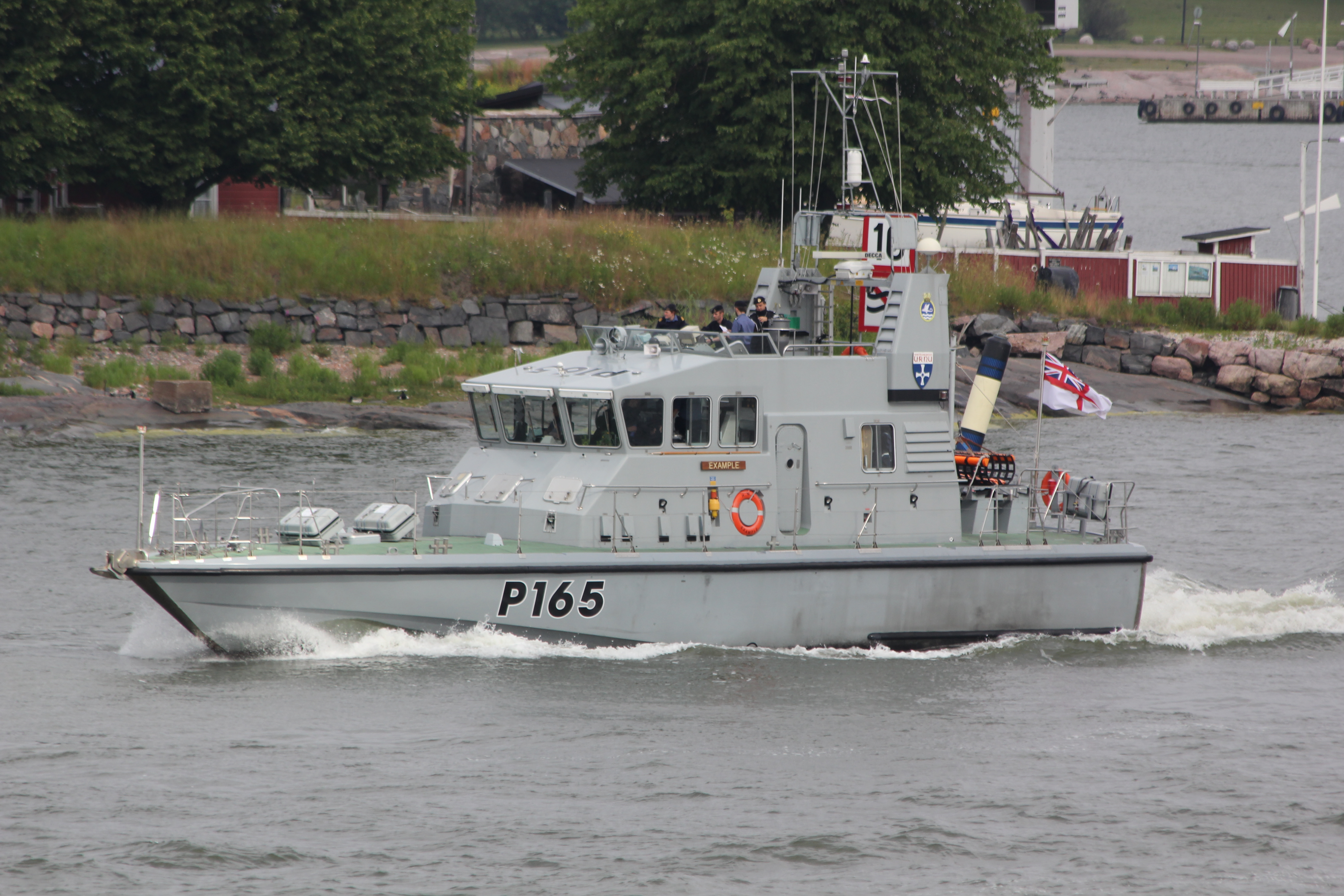 British patrol boat HMS Example (P165) leaving Helsinki via Särkänsalmi strait.